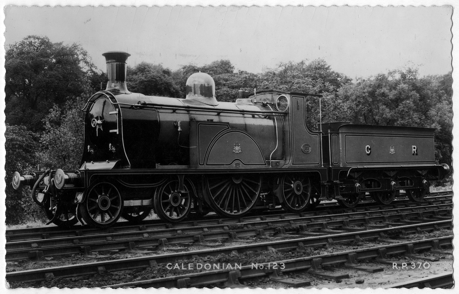 Postcard found in Spitalfields antique market in 2002.